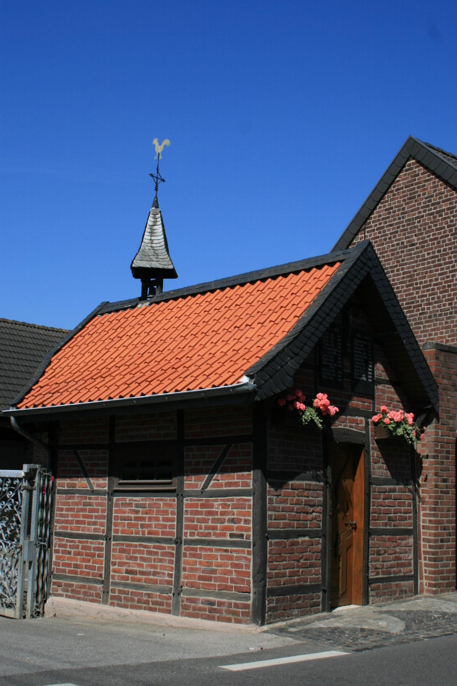 Cultural heritage monument No. G 024 in Mönchengladbach